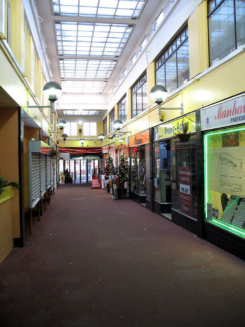 The Grand Arcade Pre-Christmas rush in the Grand Arcade.